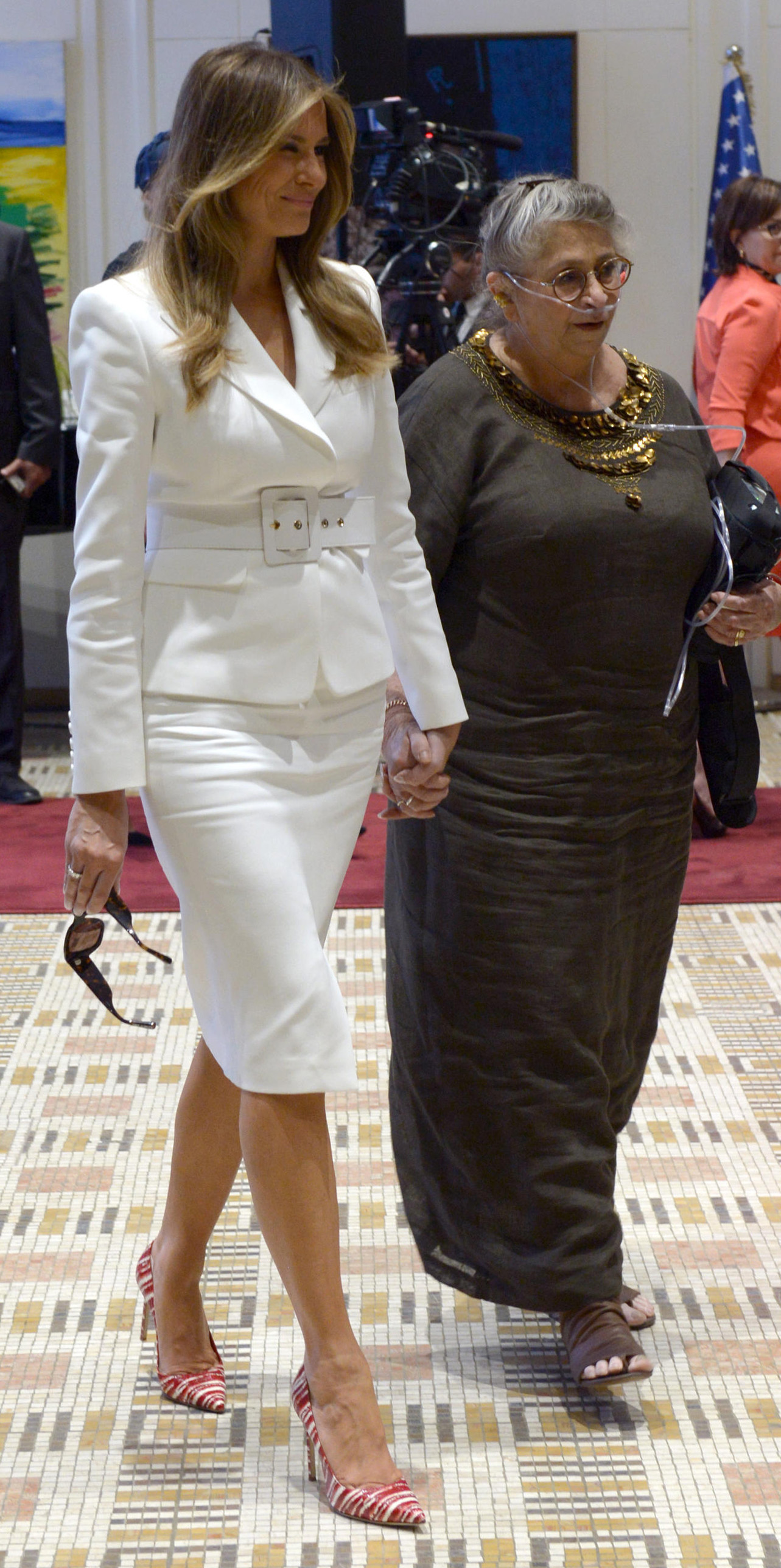 The President of Israel's wife Nechama Rivlin and the President of the United States' wife Melania Trump, in Mishkan HaNassi, the official residence of the President of Israel in Jerusalem.